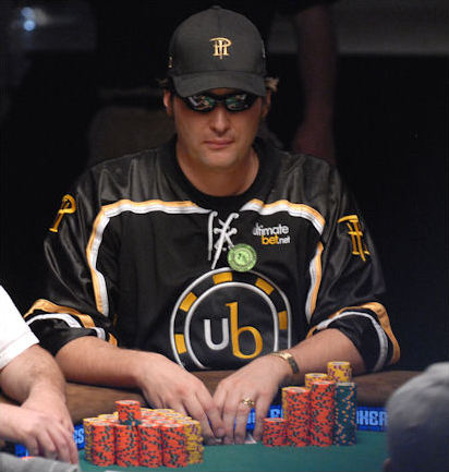 Phill Hellmuth in 2008 World Series of Poker